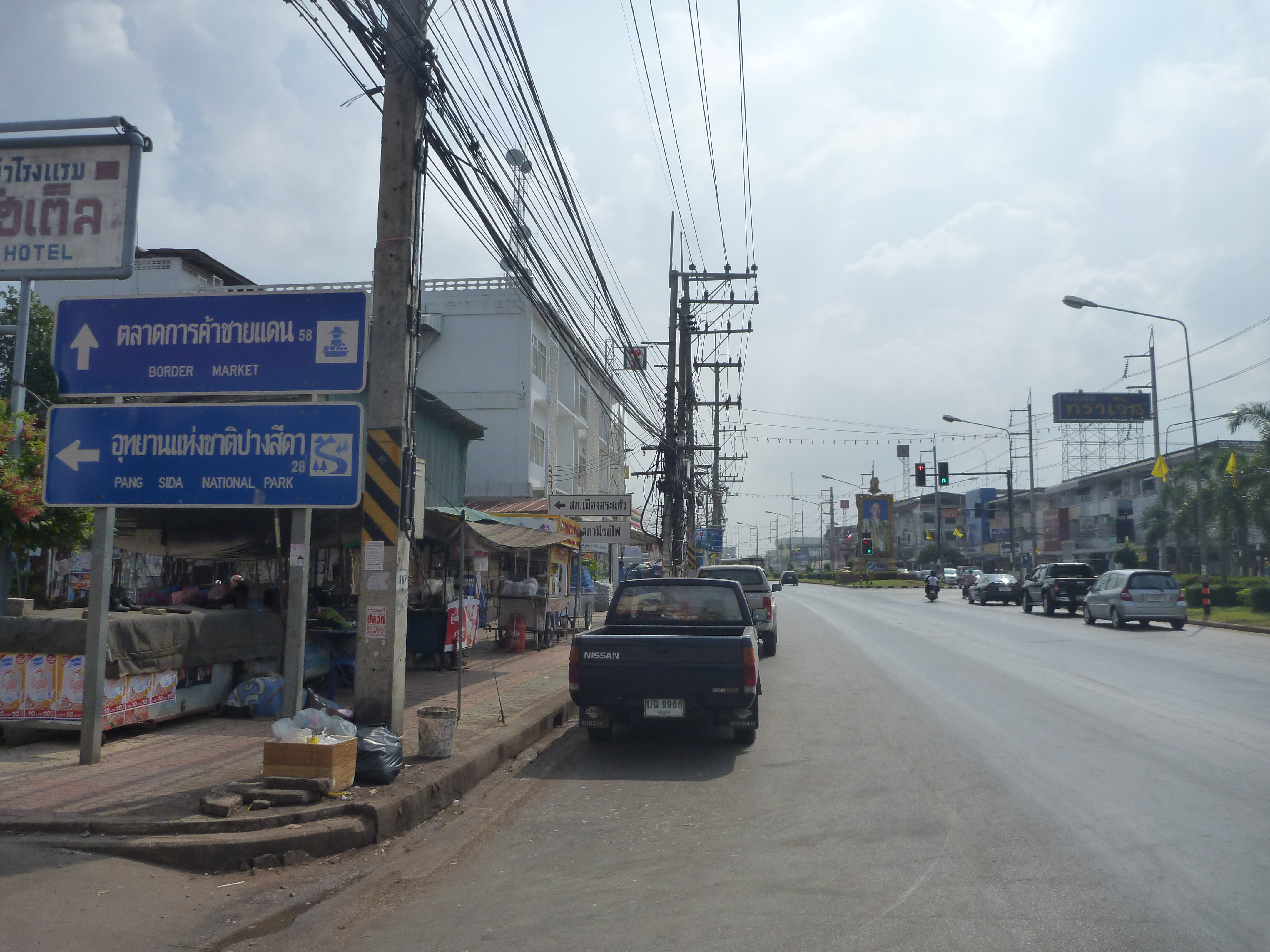 Road to Border Market